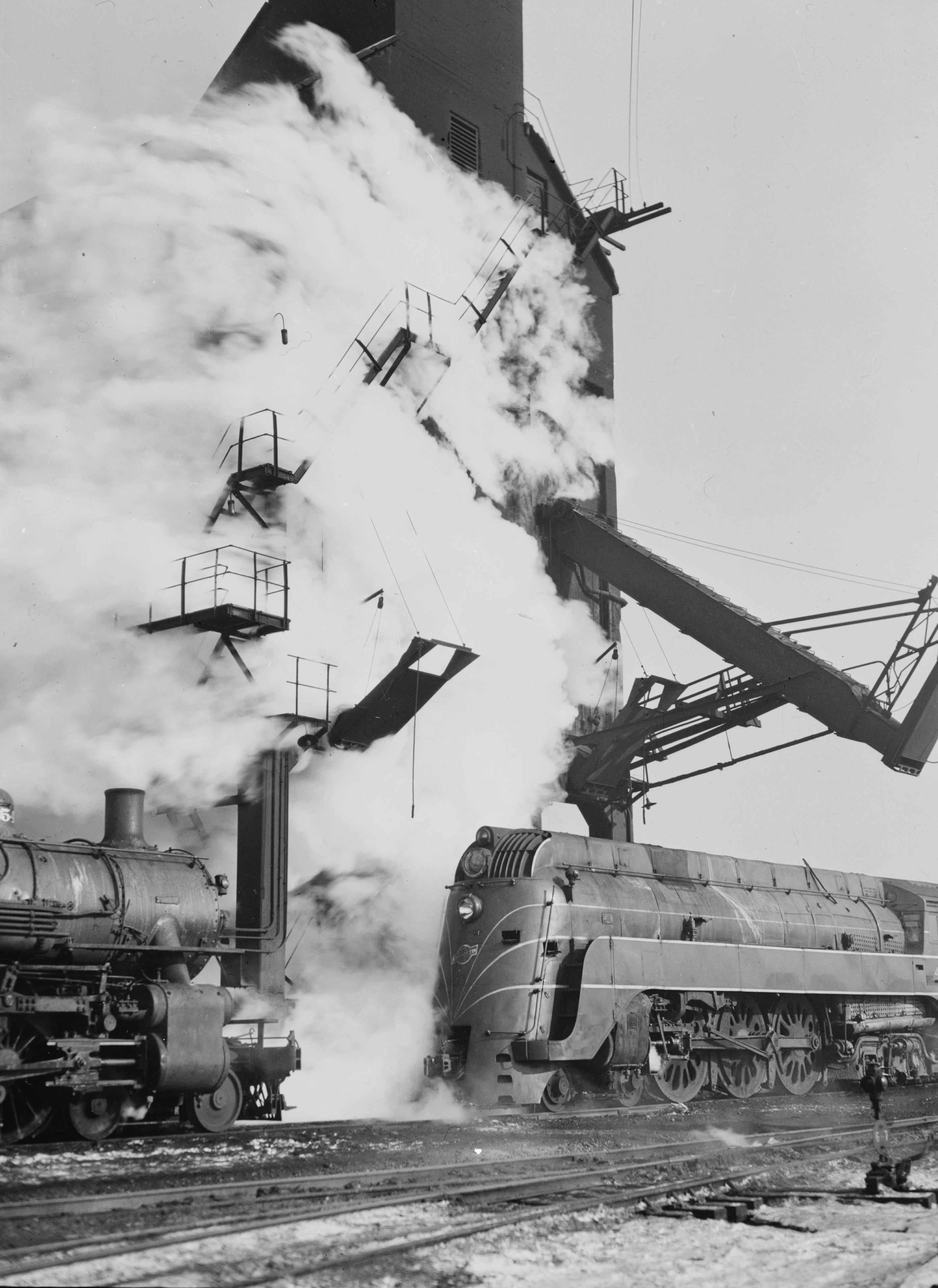 Chicago, Illinois. One of the Chicago and North Western Railway's E-4 class "400" fleet of locomotives lined up for coal and water at a coaling station.